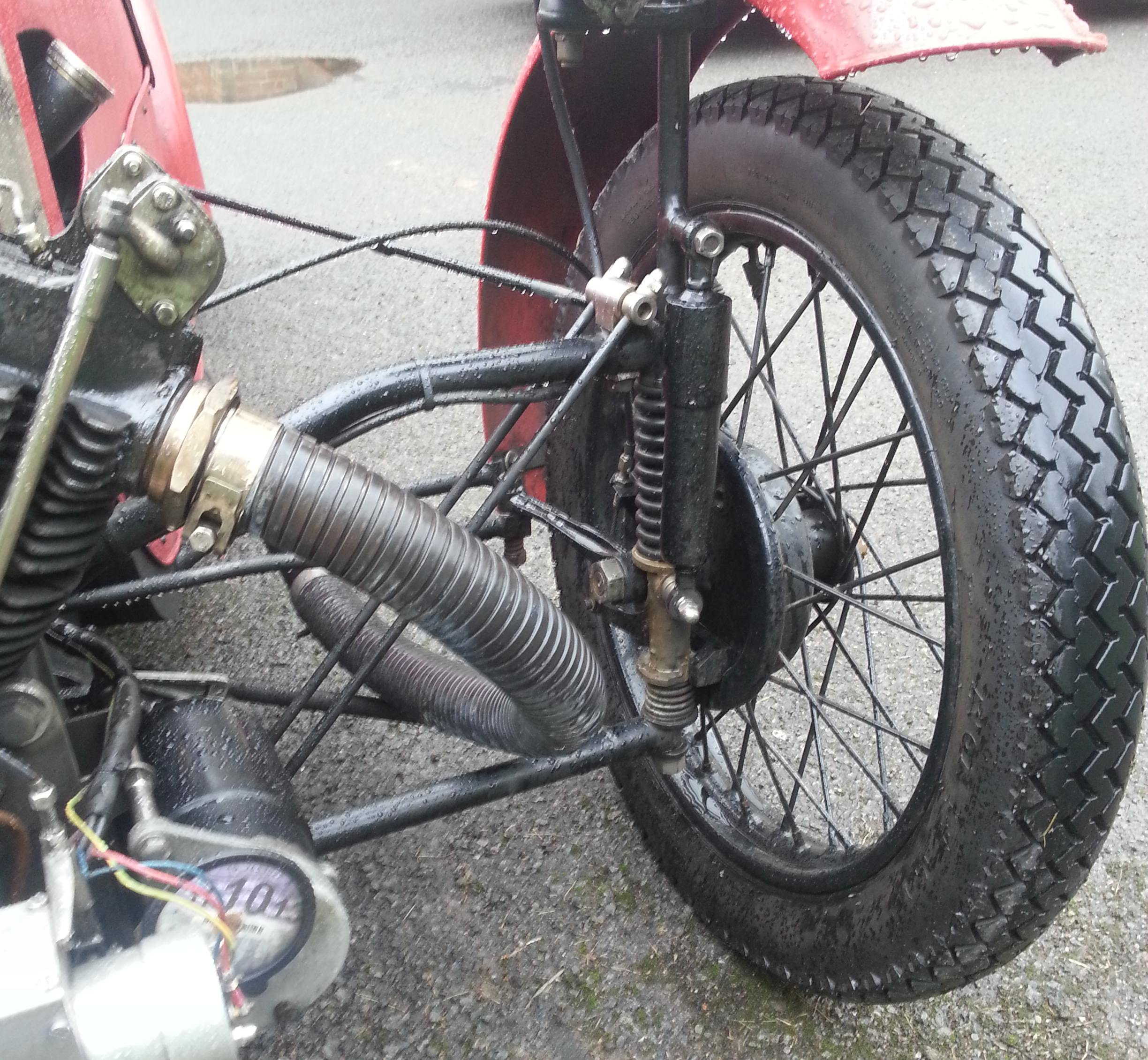 Morgan inverted sliding pillar suspension, 1927 3-wheeler, SV8996